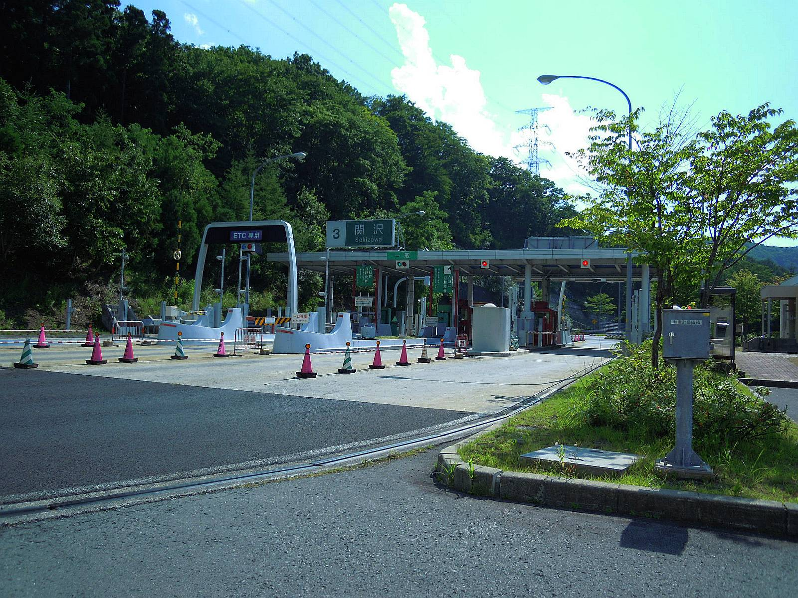 This Interchange, Sekizawa Interchange, is on Yamagata Expressway, in Yamagata City Yamagata Prefecture, Japan.